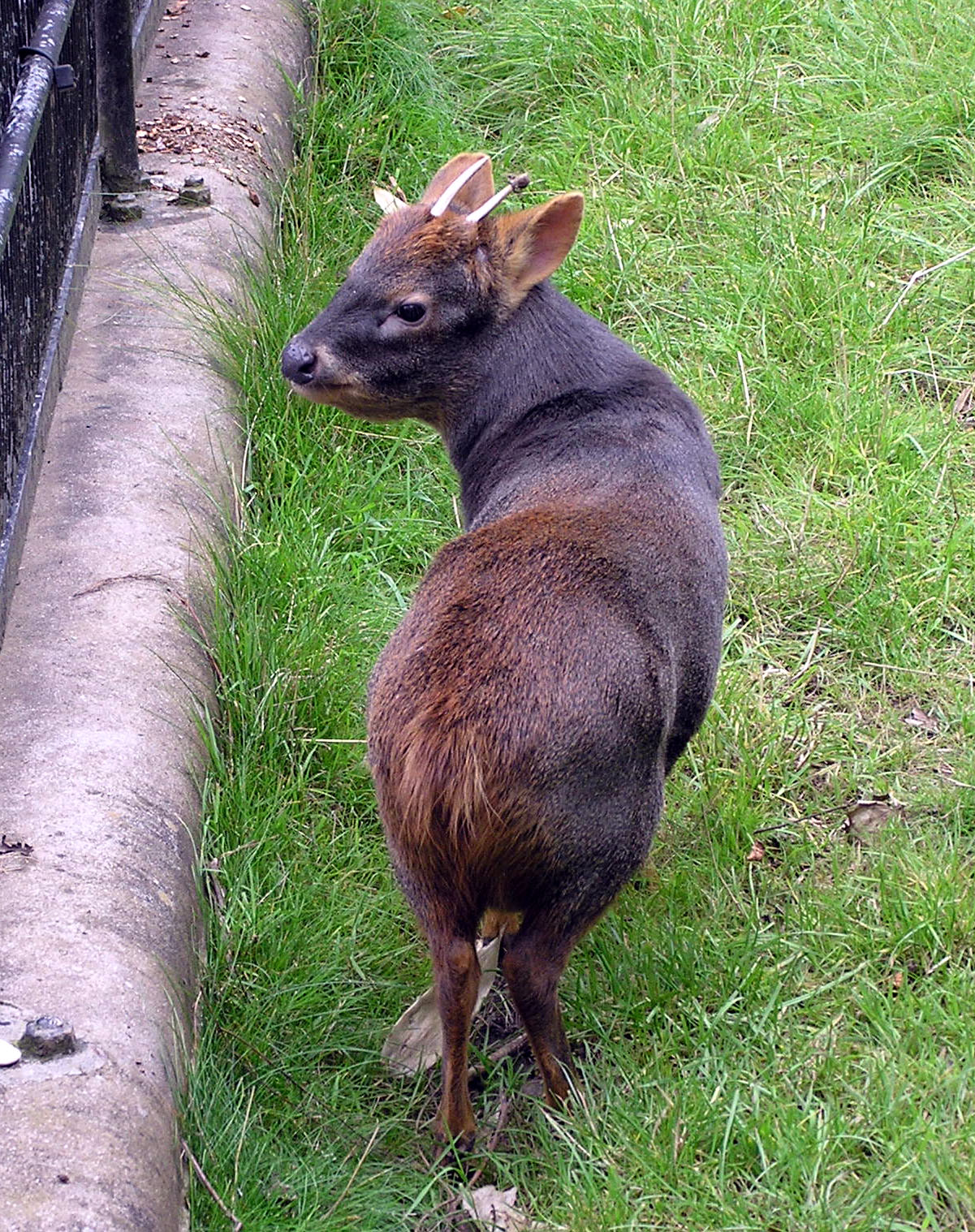 Southern Pudu Pudu pudu at Bristol Zoo, Bristol, England. Note that Pudu pudu and Pudu puda are alternatives, neither is wrong but I believe, from looking around the internet, that Pudu pudu is preferred. Habitat: humid forests. Eats leaves and grass. This is probably a male because of the prominent pointy antlers.